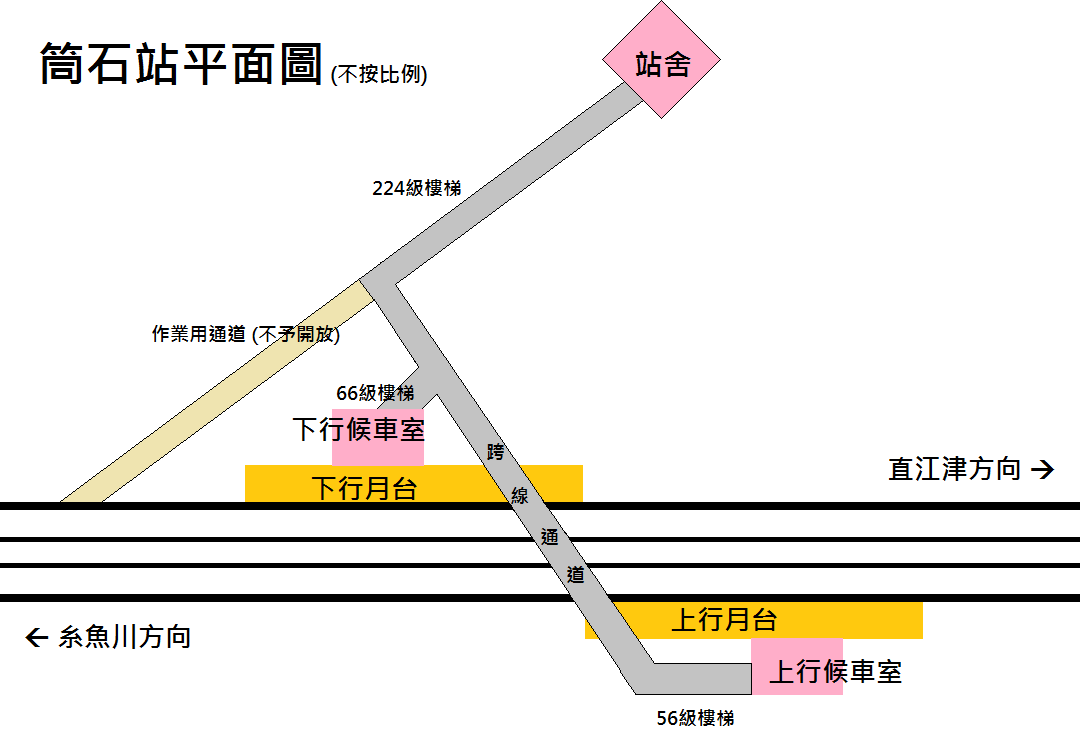 The Floor Plan of Tsutsuishi Station (not in scale)